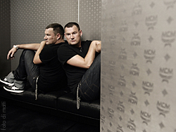 Portrait of Michael Michalsky, photographed by Matti Hillig. The photo was taken in Berlin on June 14, 2005. Michalsky is a German fashion designer who worked for Adidas and MCM Worldwide and now has his own label Michalsky. The portrait was taken in a changing room of the Berlin MCM store. High-resolution versions of this and more photos are available. Please contact me